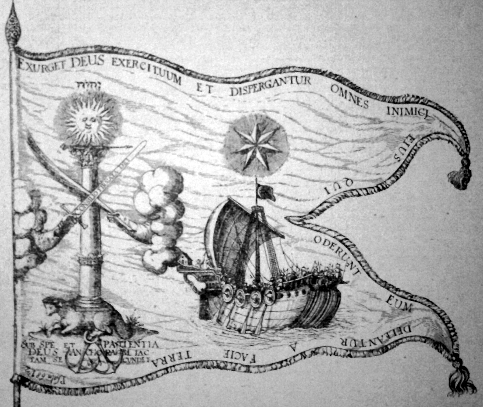 Flag of Gabriel Bethlen